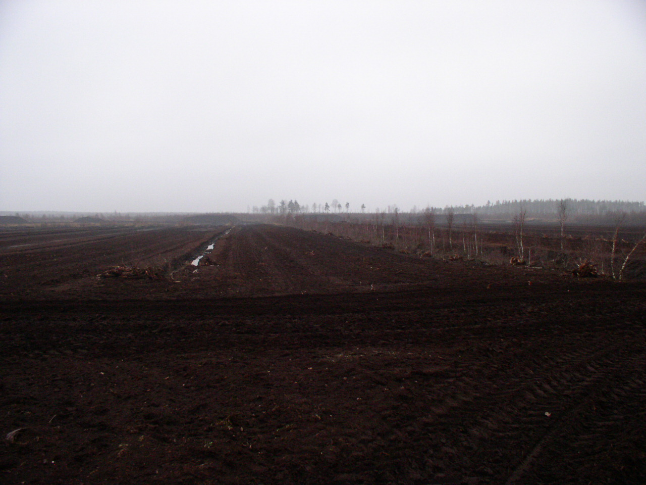 Peat mining near Rudzensk, Belarus.